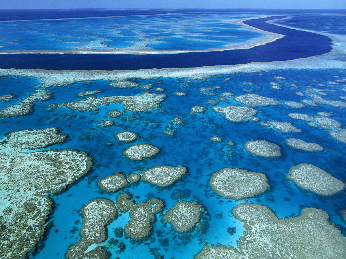 set resifi